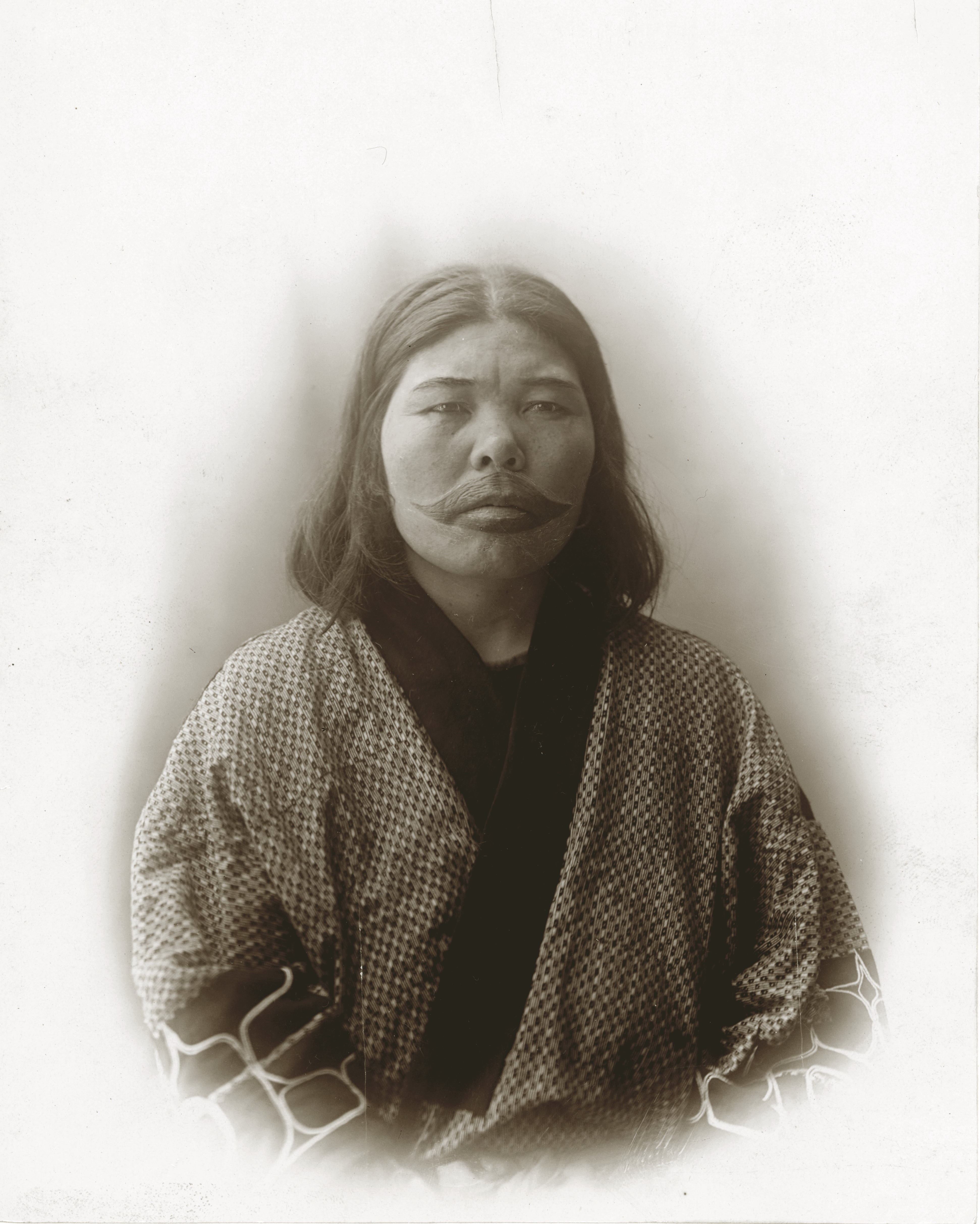 Title: Ainu Woman from Japan with the Department of Anthropology at the 1904 World's Fair.